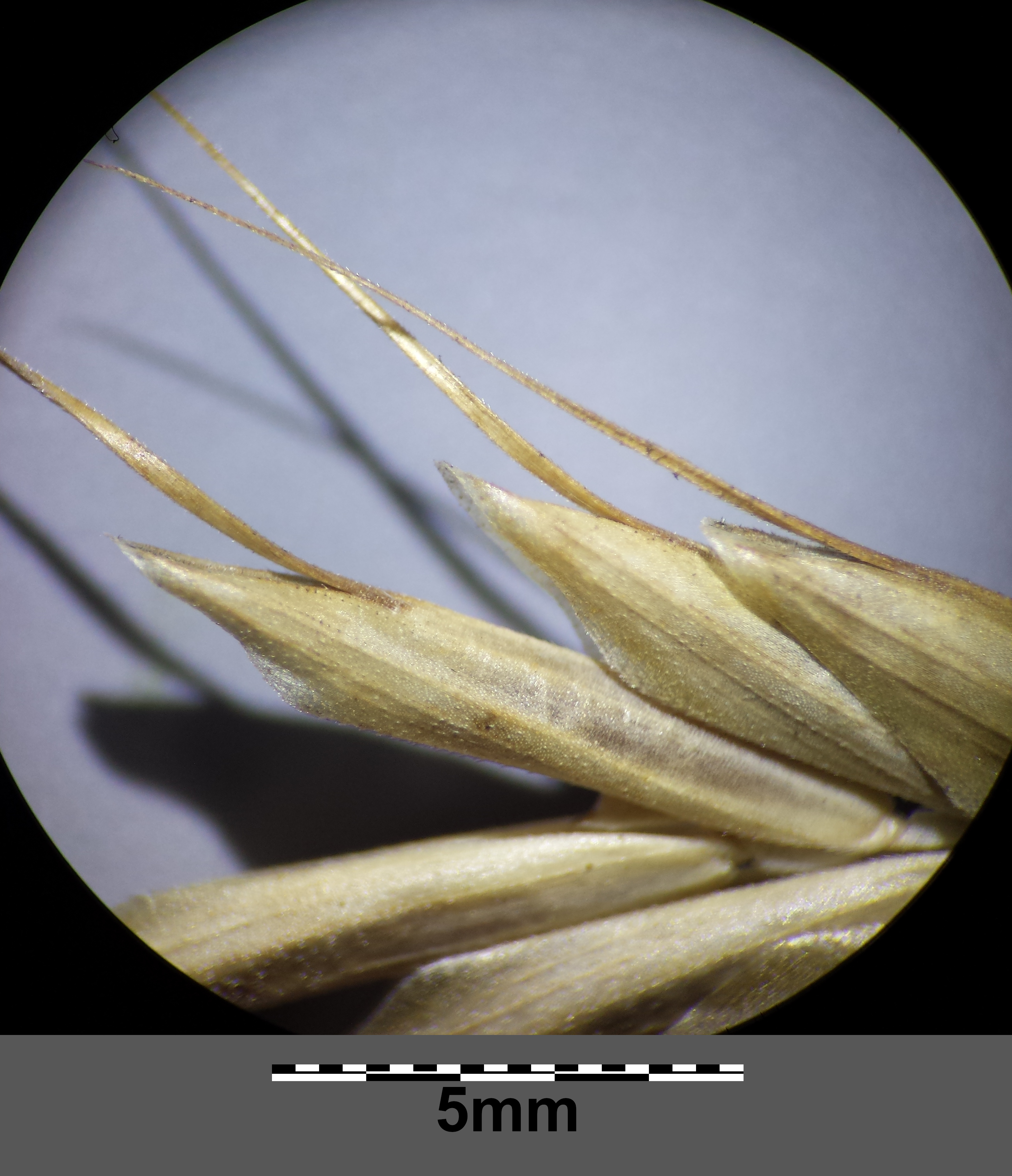 Lemmata with membranous margin and divaricate awns Taxonym: Bromus japonicus ss Fischer et al. EfÖLS 2008 ISBN 978-3-85474-187-9 Location: next to Marchfeldkanal near Groß-Jedlersdorf, Wien-Floridsdorf - ca. 160 m a.s.l. Habitat: border of a field